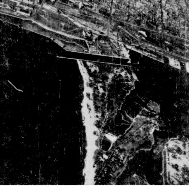 An aerial view of Hanlan's Point and the site of the Island Airport, 1937, looking north. The City of Toronto is at the top of the picture. The Hanlan's baseball stadium is visible on the point on the right-hand side. The newer Maple Leaf Stadium baseball stadium can be seen near the top centre of the photograph.